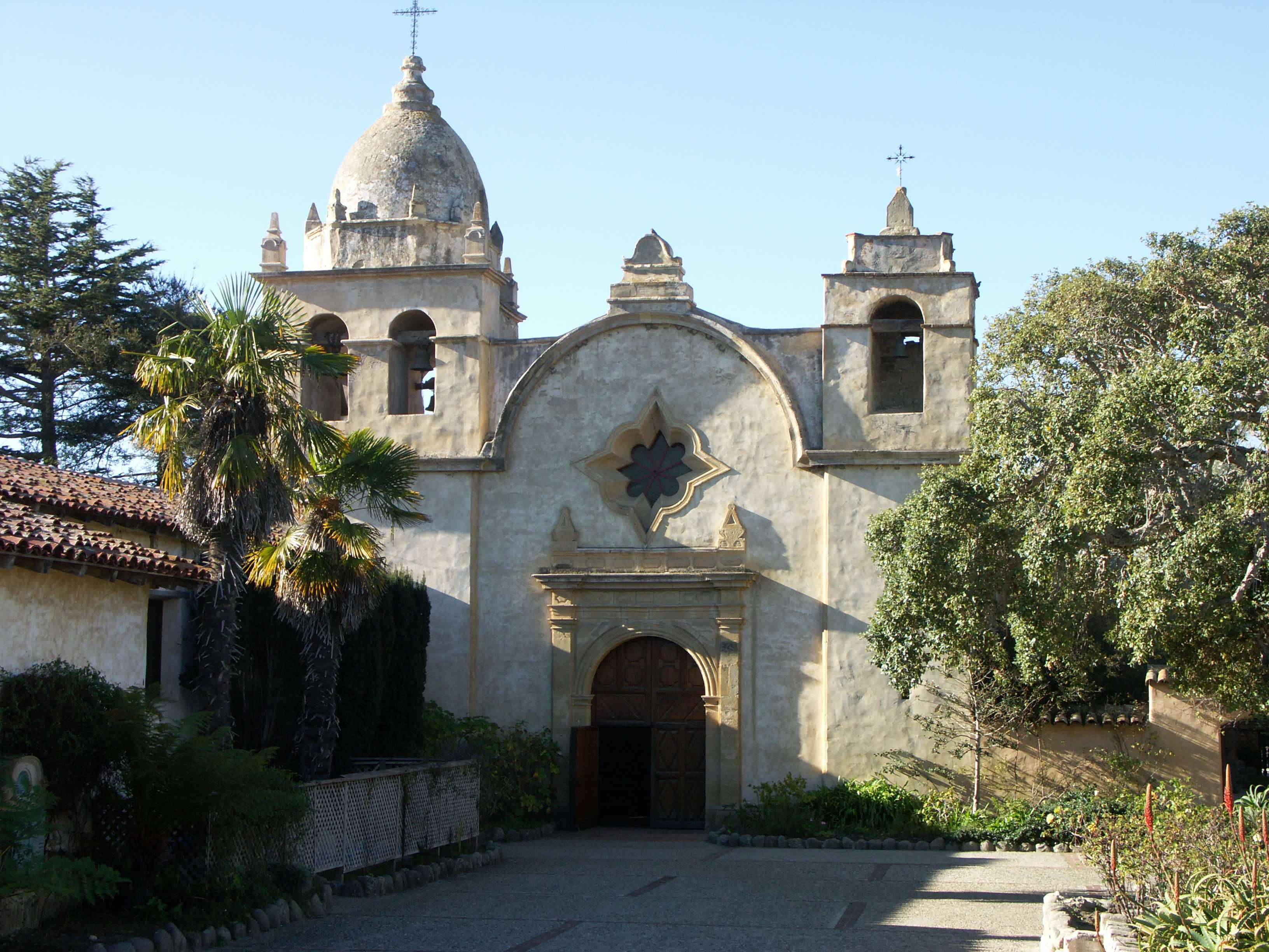 Entrance of the San Carlos Borromeo del rio Carmelo Mission - Carmel - California / fr: Entree de la Mission San Carlos Borromeo à Carmel - Californie